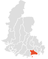 Location map for Søgne in Vest-Agder, Norway